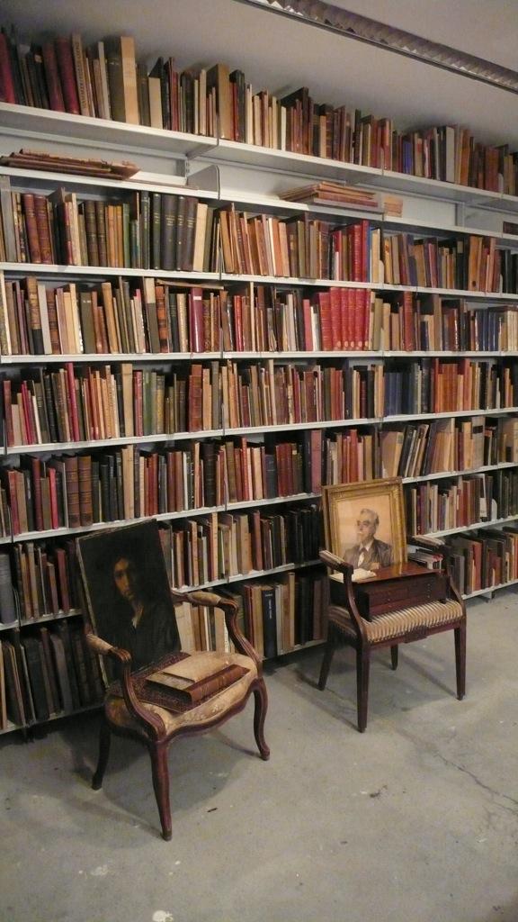 I look forward to spending some time in these chairs reading 400 year old books.